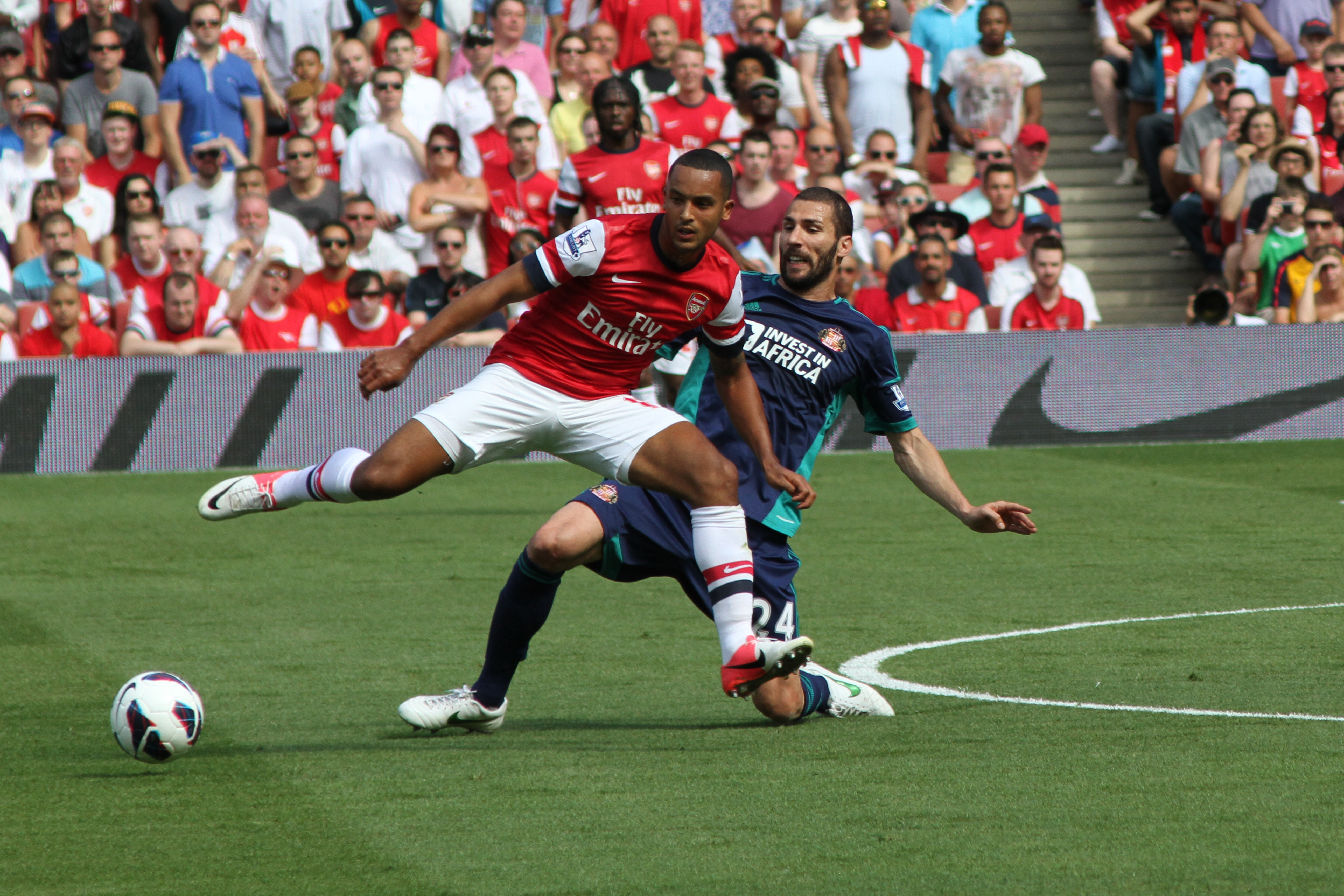 Theo Walcott & Carlos Cuellar